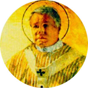 Portait of Pope Pius X in the Basilica of Saint Paul Outside the Walls, Rome